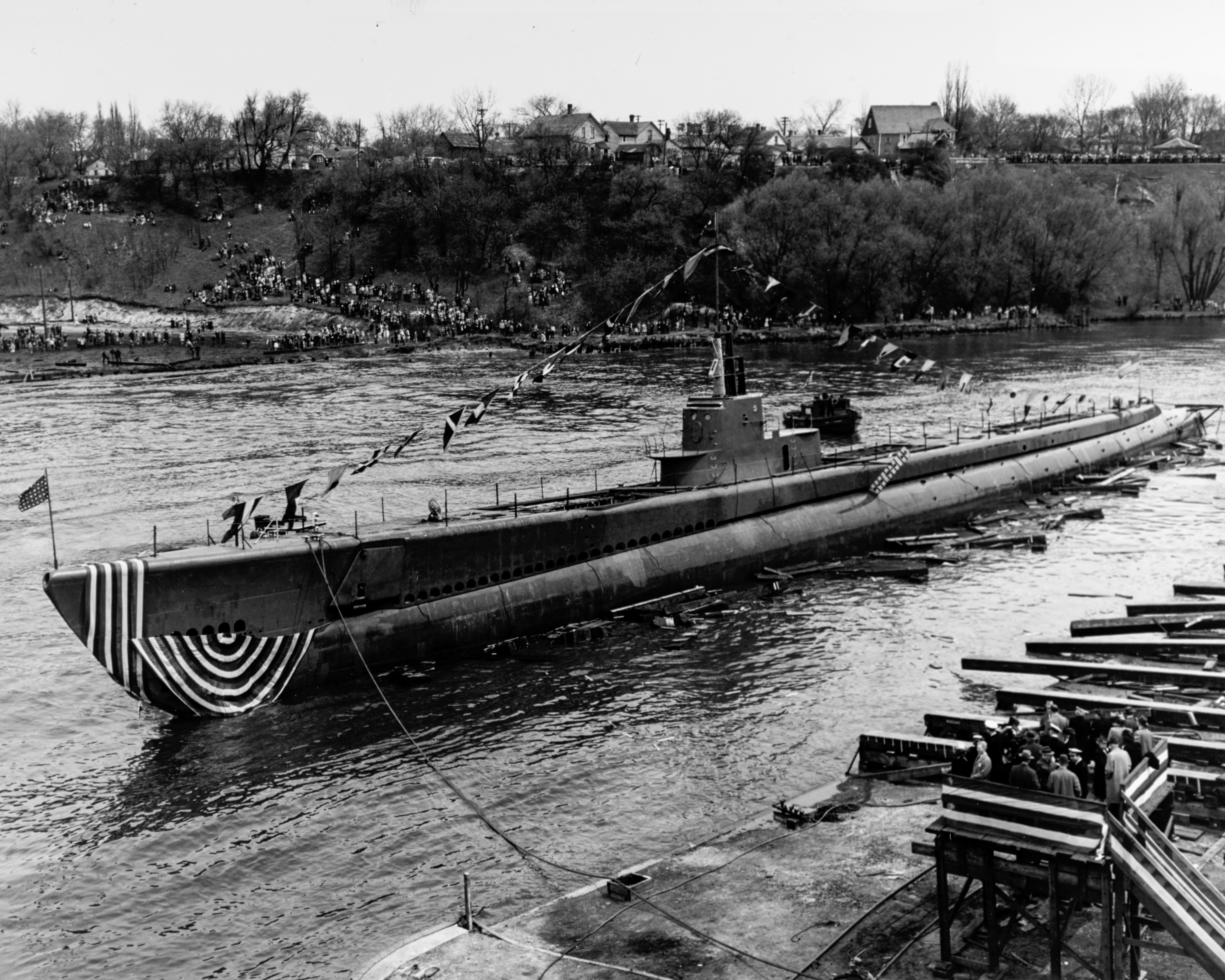 USS Robalo (SS-273), photograph taken from Naval Historical Center. Public domain.